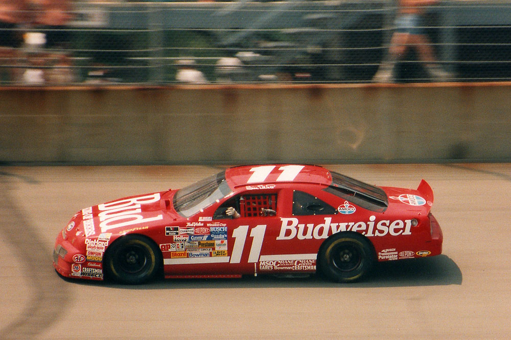 Michigan International Speedway – June 1994 Film Scan Canon AE-1